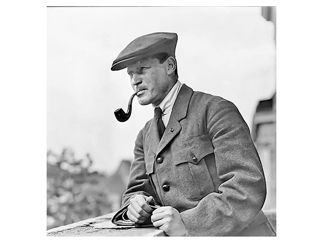 Archibald Reiss (1875 —1929)